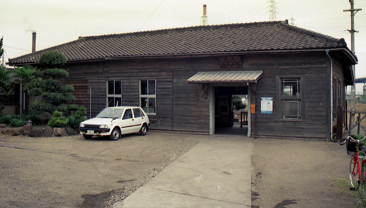 JNR Bantan Line Shikamako Station